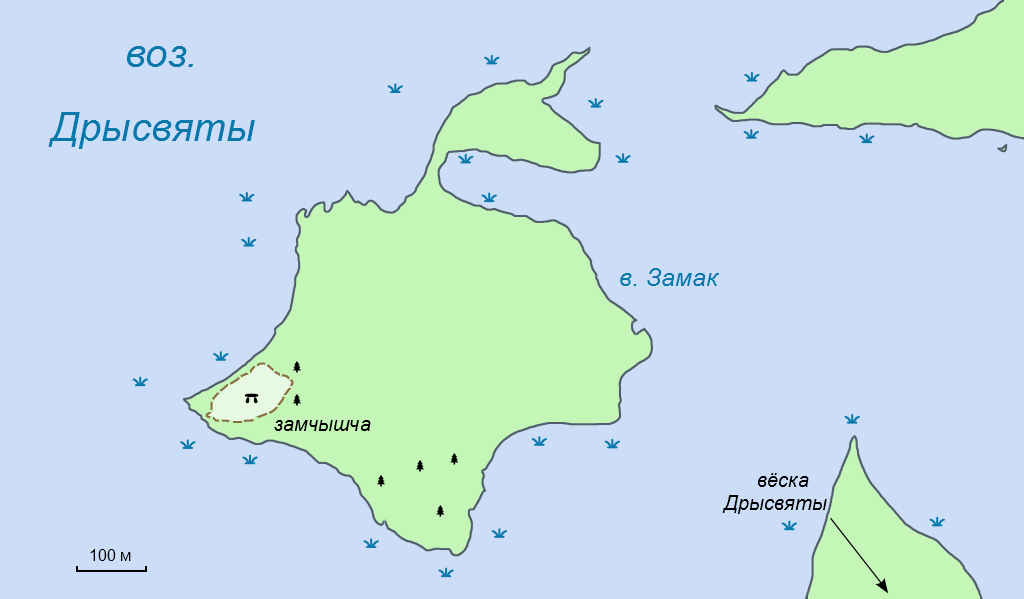 Zamak (Castle) Island in the Drysviaty Lake